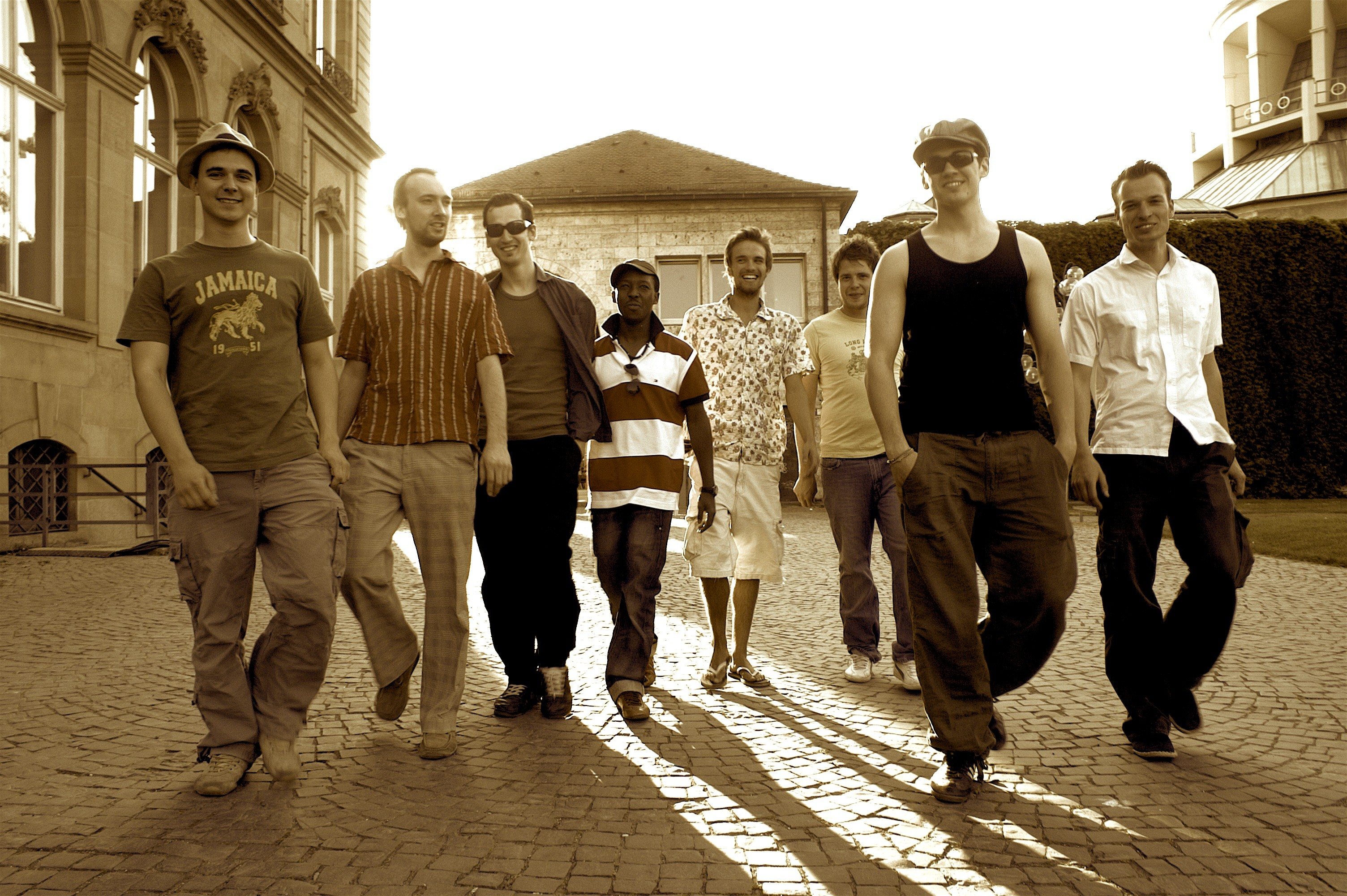 The Members of the Band "Los Skalameros"